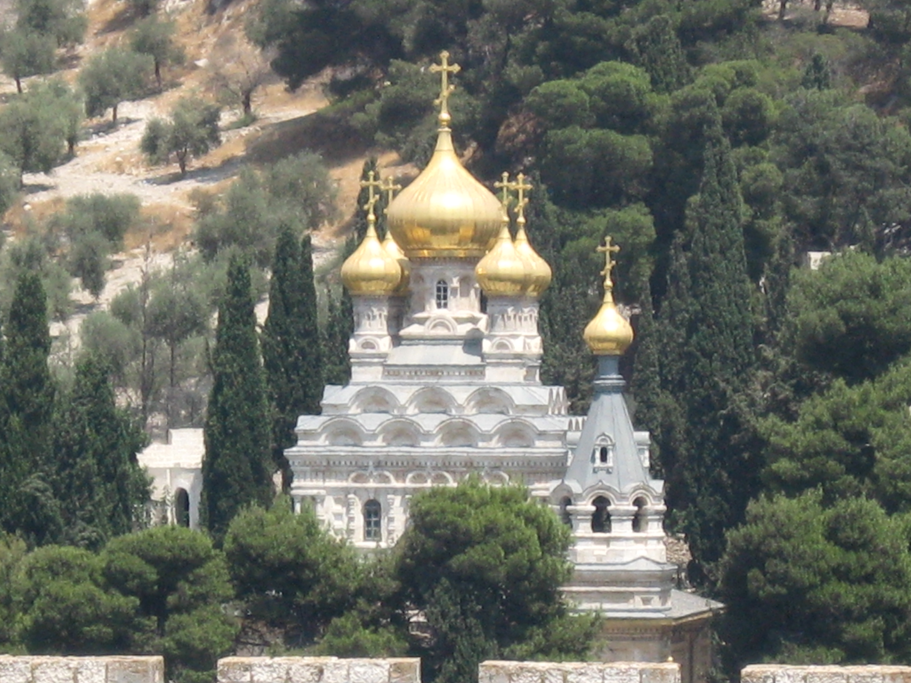 View, from the Temple Mount, on the Church of Mary Magdalene